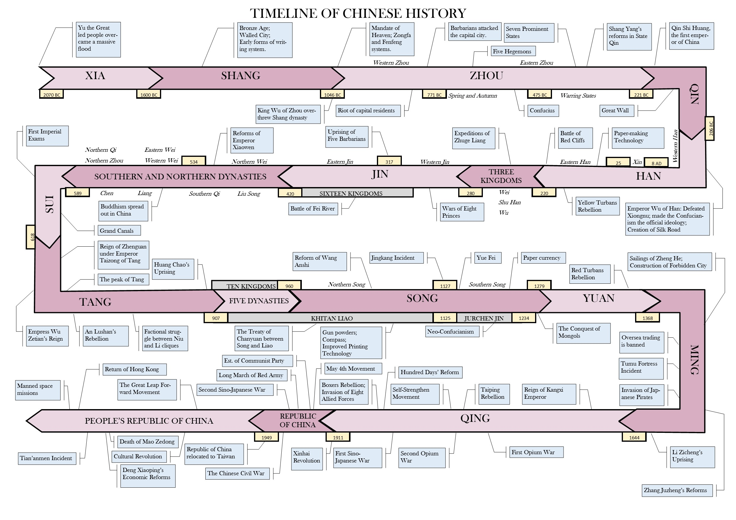 Timeline of Chinese history from Xia dynasty to the present